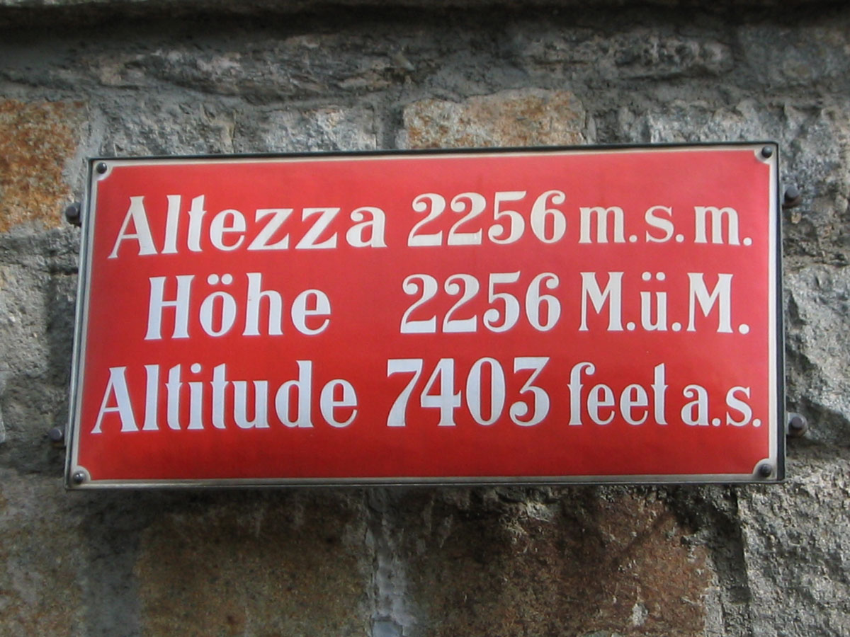 Old elevation sign at Ospizio Bernina railway station (the elevation is 2,253 m)